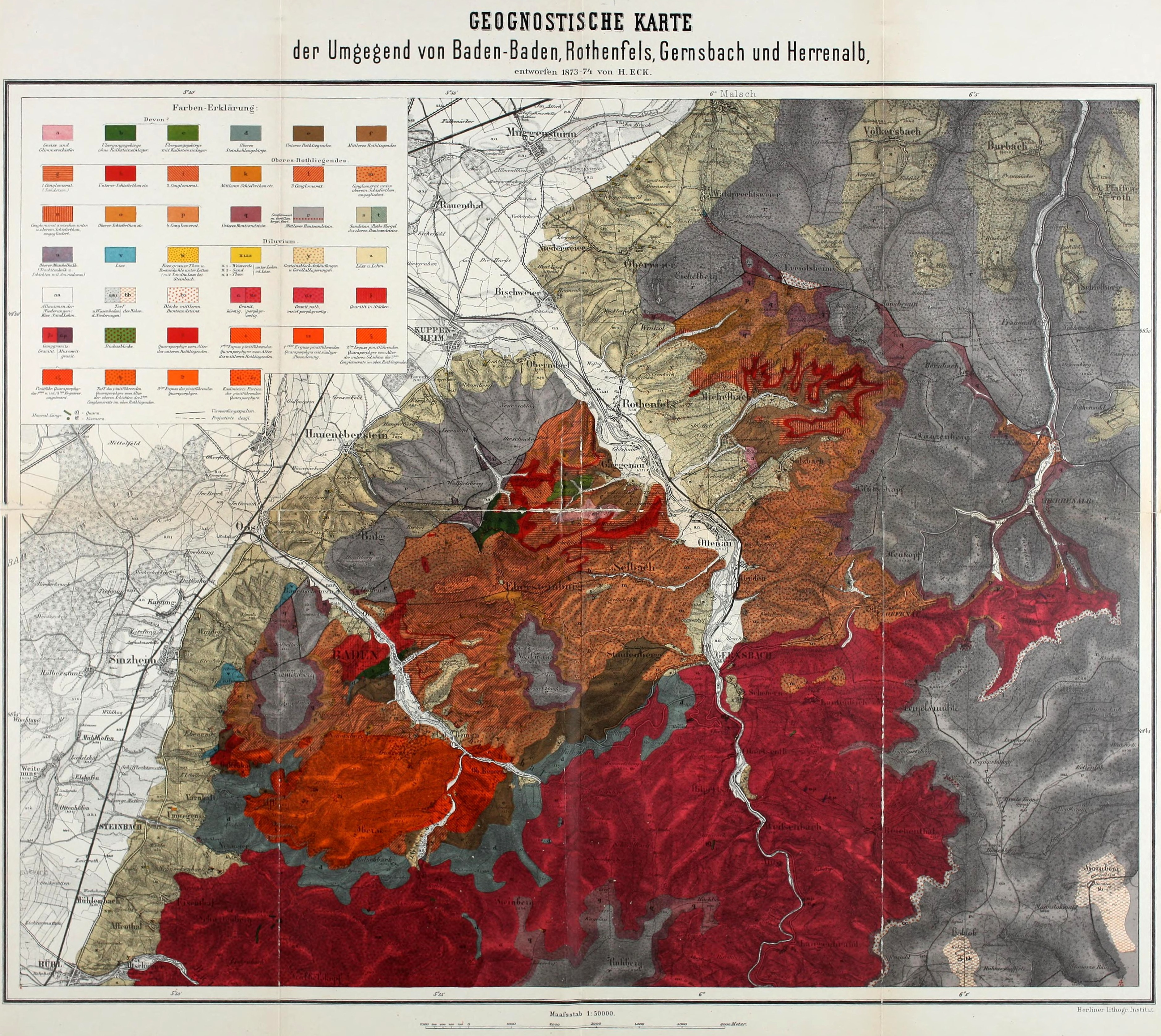 Title: Abhandlungen zur geologischen Specialkarte von Preussen und den Thüringischen Staaten Year: 1872 (1870s) Authors: Preussische Geologische Landesanstalt Subjects: Publisher: Berlin : Neumann'schen Kartenhandlung Text Appearing Before Image: 6E0U0STISCHE KARTE der Umgegend von Baden-Baden,Rothenfels,Gernsbach und Herrenalb, entworfen 1873 von H.ECK. Text Appearing After Image: BorlincT lilho» '■■■' rii.t MaalasUb 1:50000.